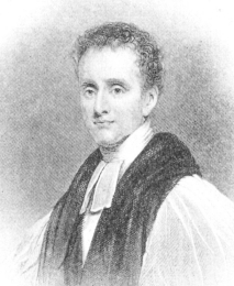 Portrait of Reginald Heber (1783-1826)